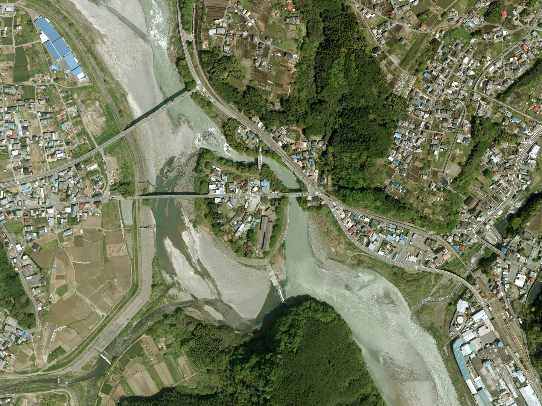 Aerial view of around Kamaguchikyo in Fujinomiya, Shizuoka Prefecture, Honshu, Japan. This is a retouched picture, which means that it has been digitally altered from its original version. Modifications: Cropping. Modifications made by Batholith.